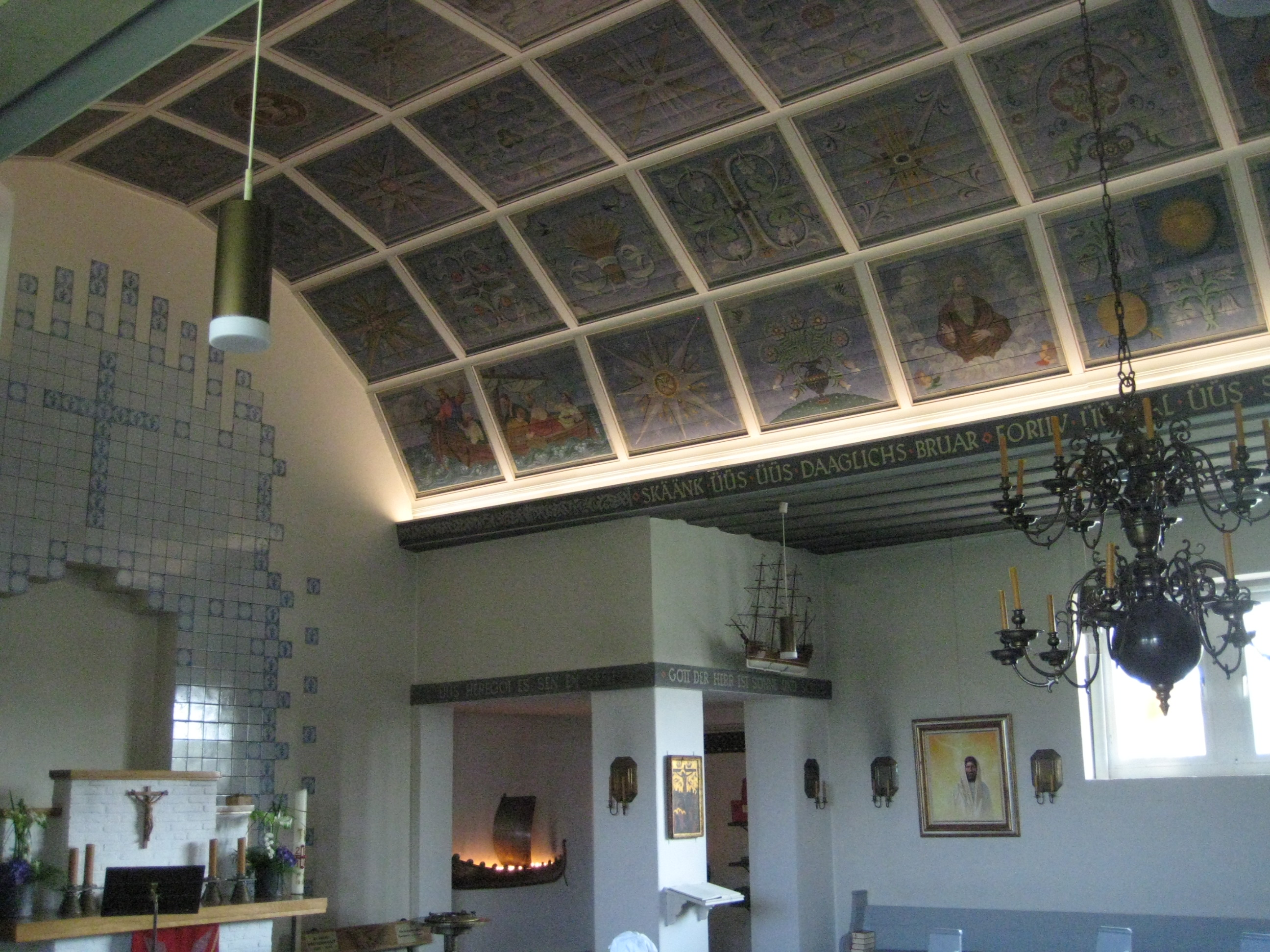 "Friesenkapelle" at Wenningstedt